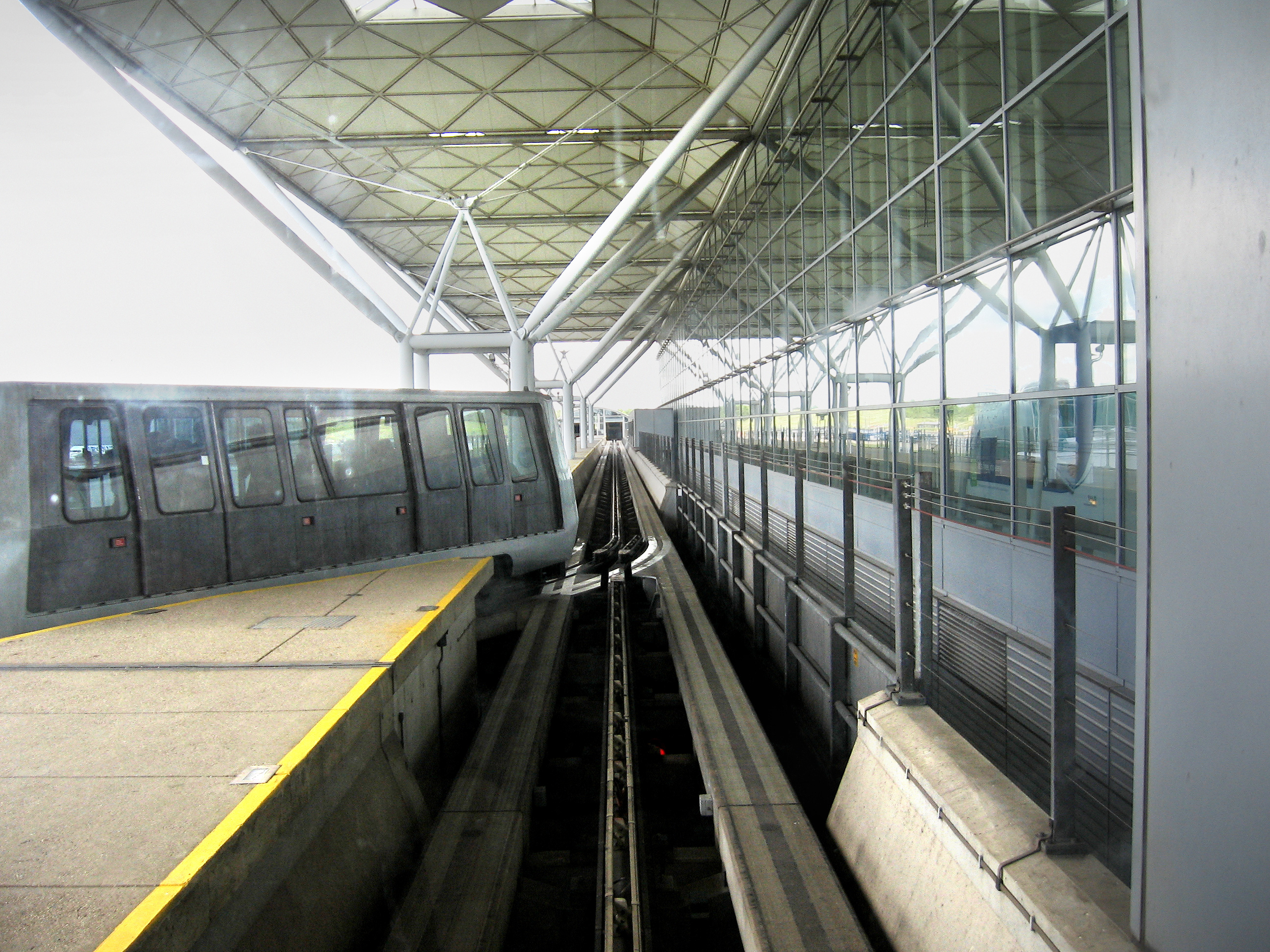 London Stansted Airport People Mover transport between terminal buildings